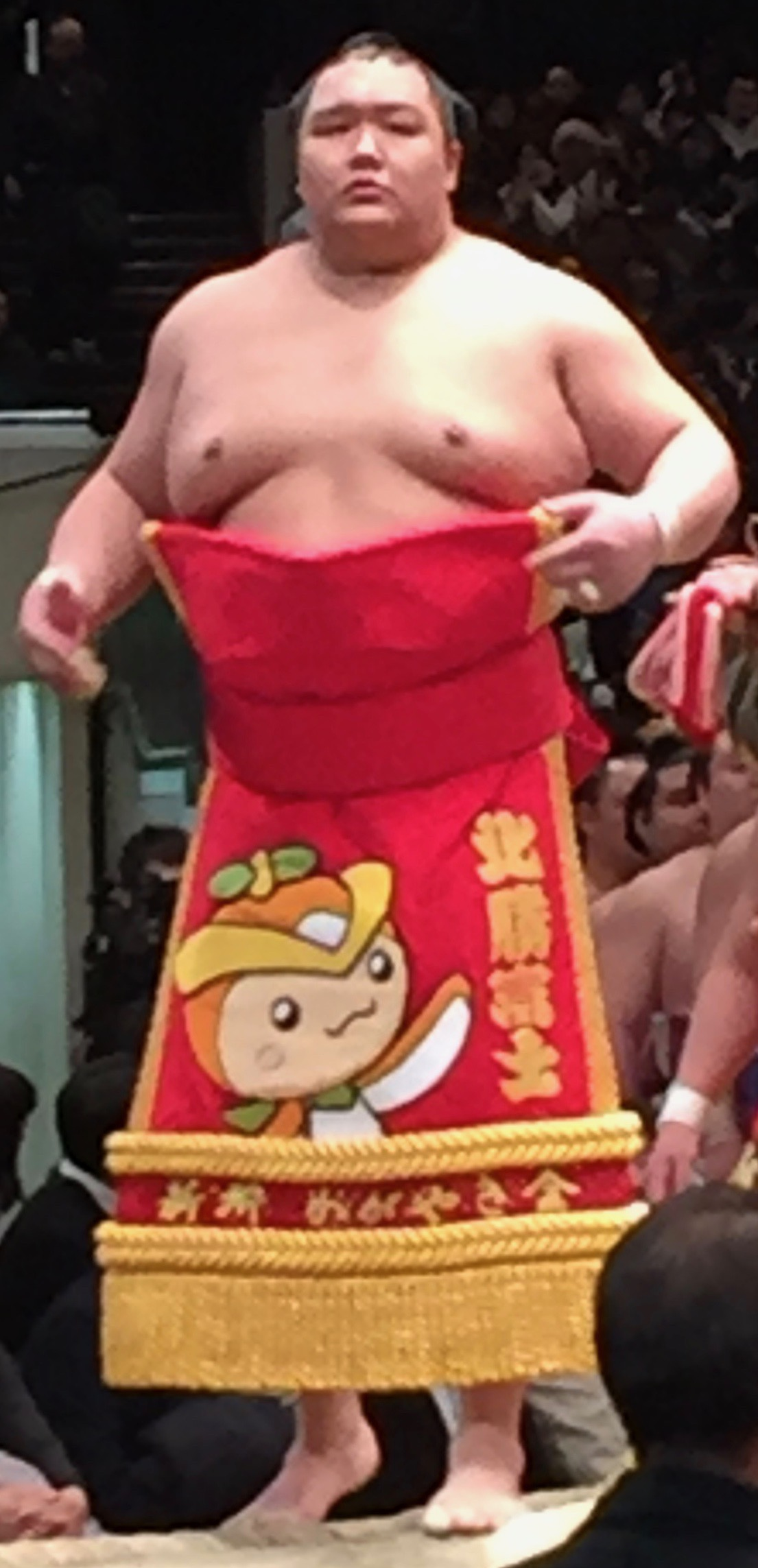 taken at January 2017 tournament